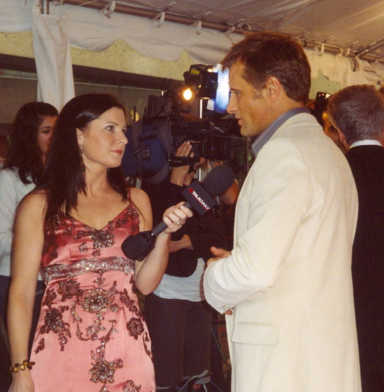 Viggo Mortensen being interviewed by TalkDaily at the 2005 Toronto International Film Festival while promoting History of Violence.History of Violence_011